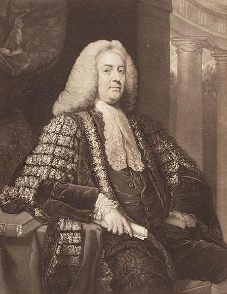 Portrait of Anthony Malone (1700–1776), Irish lawyer and politician.